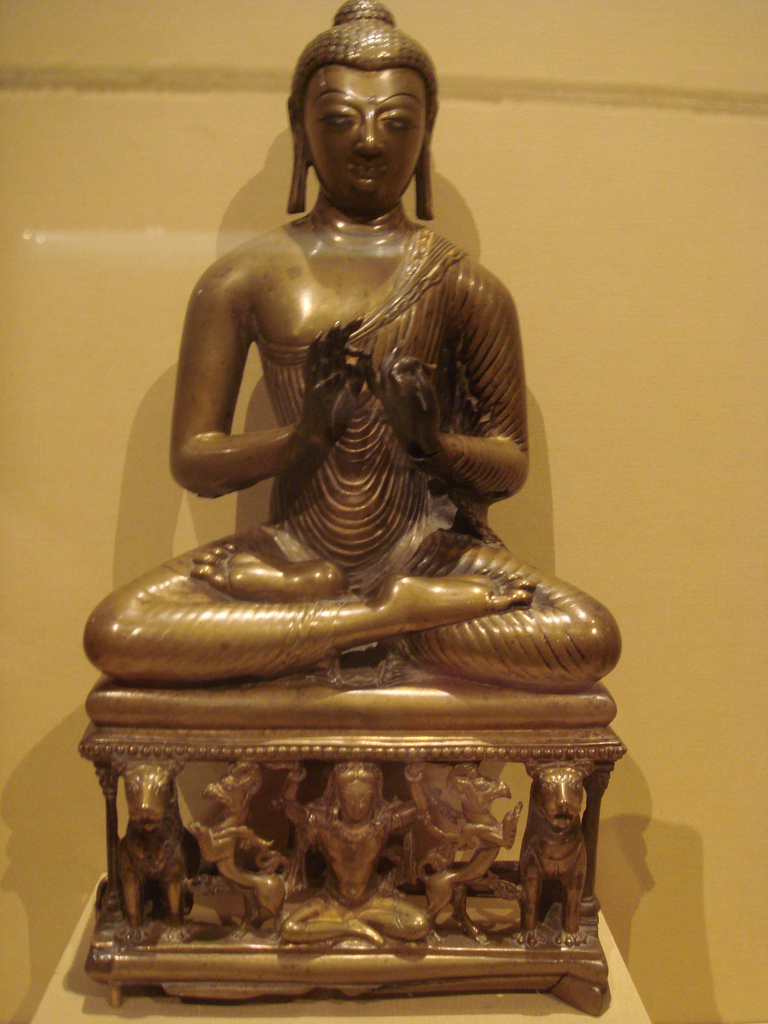 India, Jammu and Kashmir, Kashmir region, South Asia Buddha Shakyamuni or the Jina Buddha Vairochana, circa 725-750 Sculpture; Metal, Brass inlaid with silver, 16 x 8 1/2 x 3 5/8 in. (40.64 x 21.59 x 9.2 cm) From the Nasli and Alice Heeramaneck Collection, Museum Associates Purchase (M.69.13.5) Wikipedia Loves Art at the Los Angeles County Museum of Art This photo of item # M.69.13.5 at the Los Angeles County Museum of Art was contributed under the team name "ARTiFACTS" as part of the Wikipedia Loves Art project in February 2009. Los Angeles County Museum of Art The original photograph on Flickr was taken by sisleyceli—please add a comment to the original Flickr page whenever a use has been made on Wikipedia or another project. Project galleries on Flickr: this institution, this team